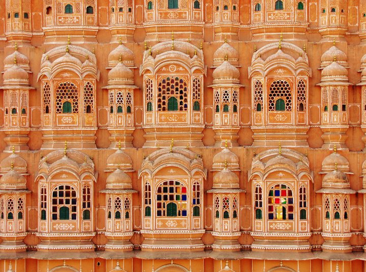 Hawa Mahal known as Roothi Rani Ka Mahal, Veerpura (Jaisamand)